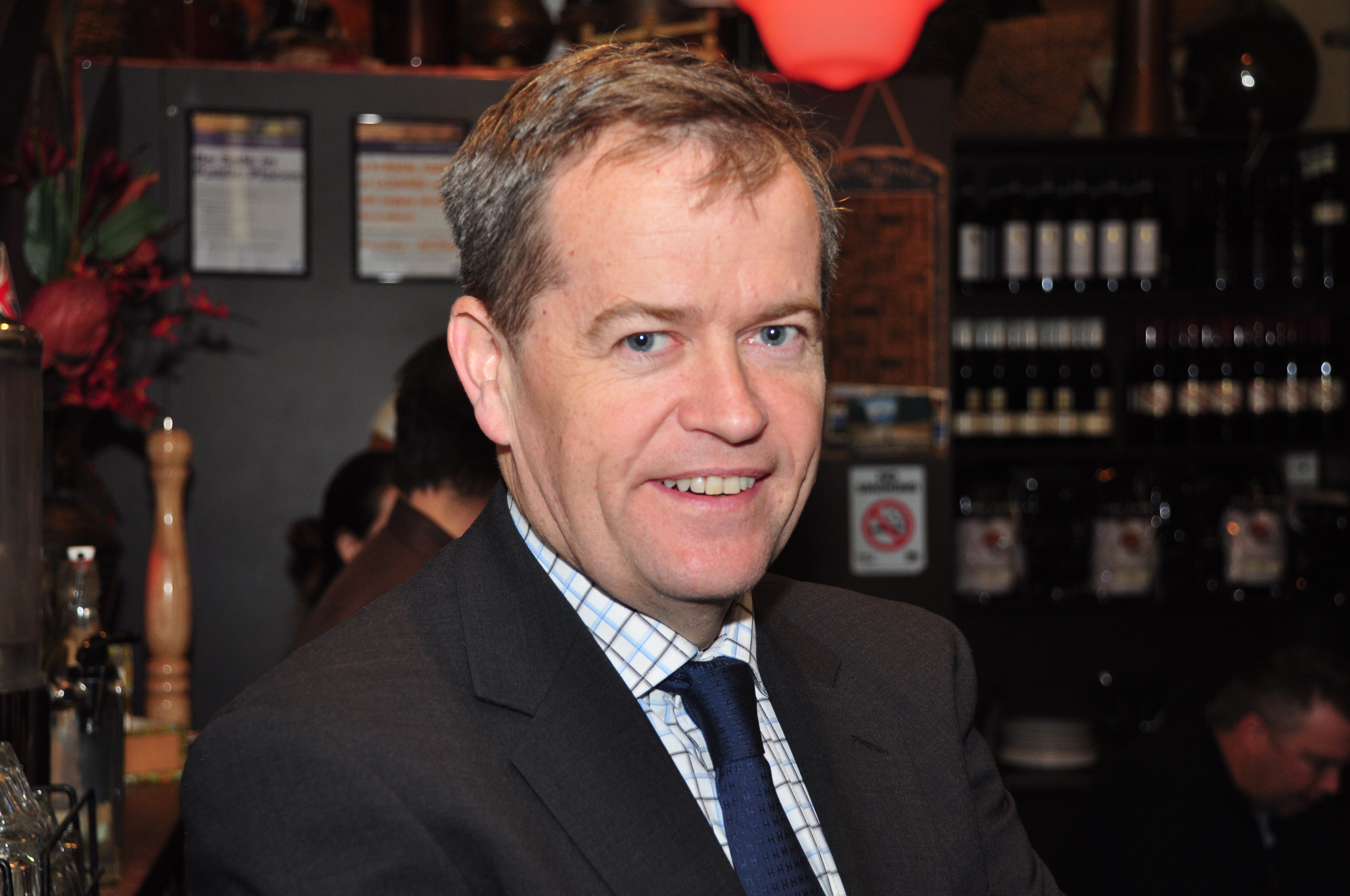 Bill Shorten